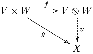 commutative diagram, showing universal property of the tensor product